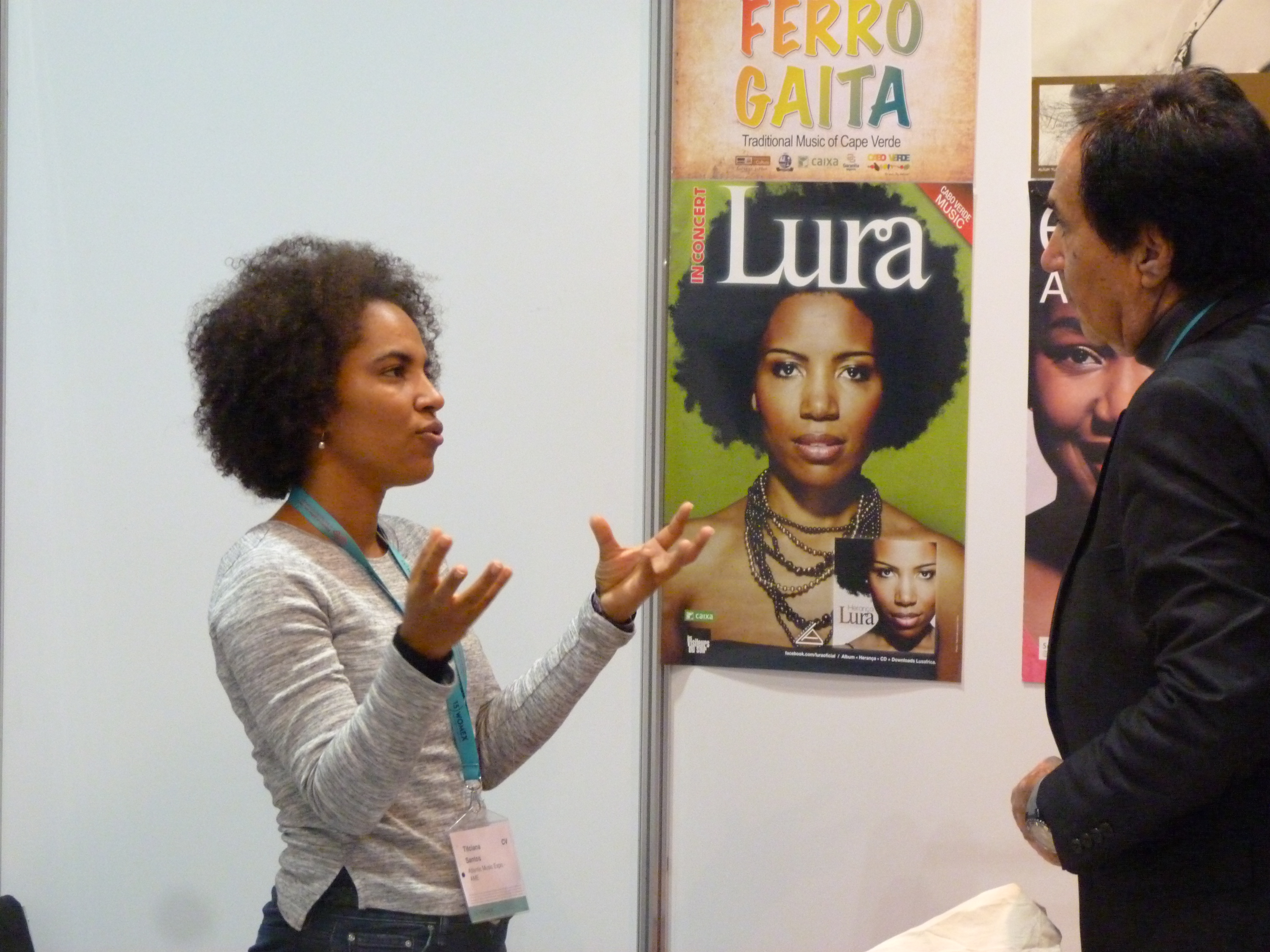 Live on the 22nd of October, 2015. WOMEX 15, Budapest, Hungary. Bálna. Lura at her exibition box.